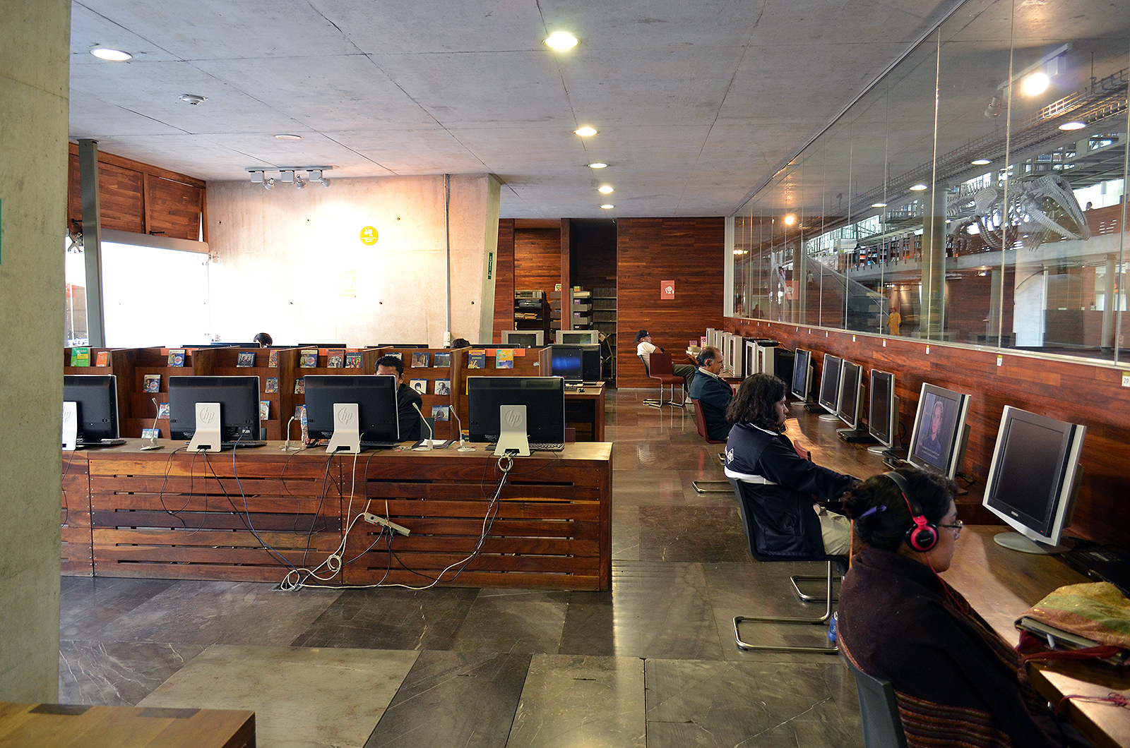 The library is located in downtown Delegación Cuauhtémoc at the Buenavista train station where the metro, suburban train, and metrobus meet. It is adorned by several sculptures by Mexican artists, including Gabriel Orozco's Ballena (Whale), prominently located at the centre of the building.